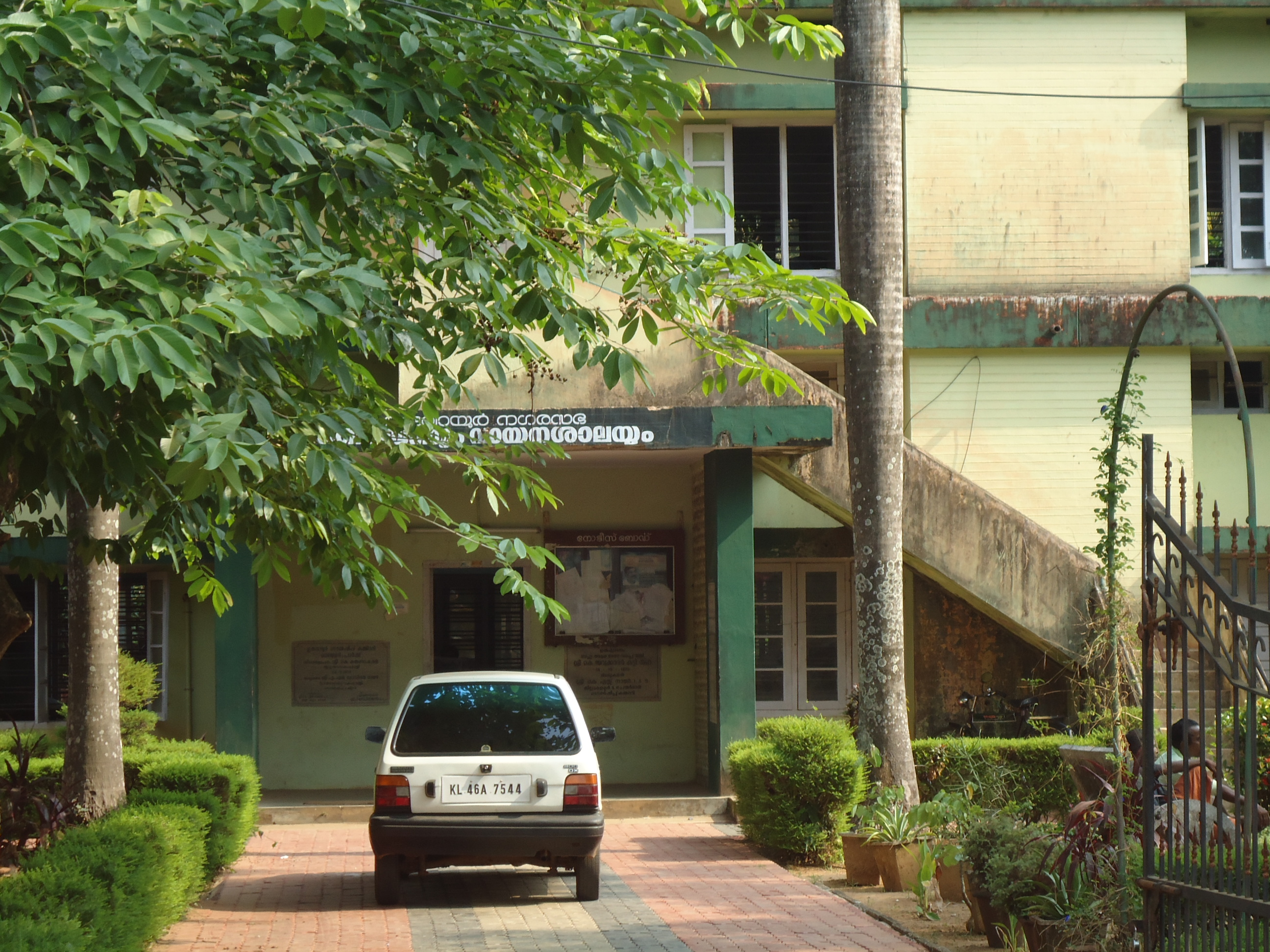 This media file is uploaded with Malayalam loves Wikimedia event.